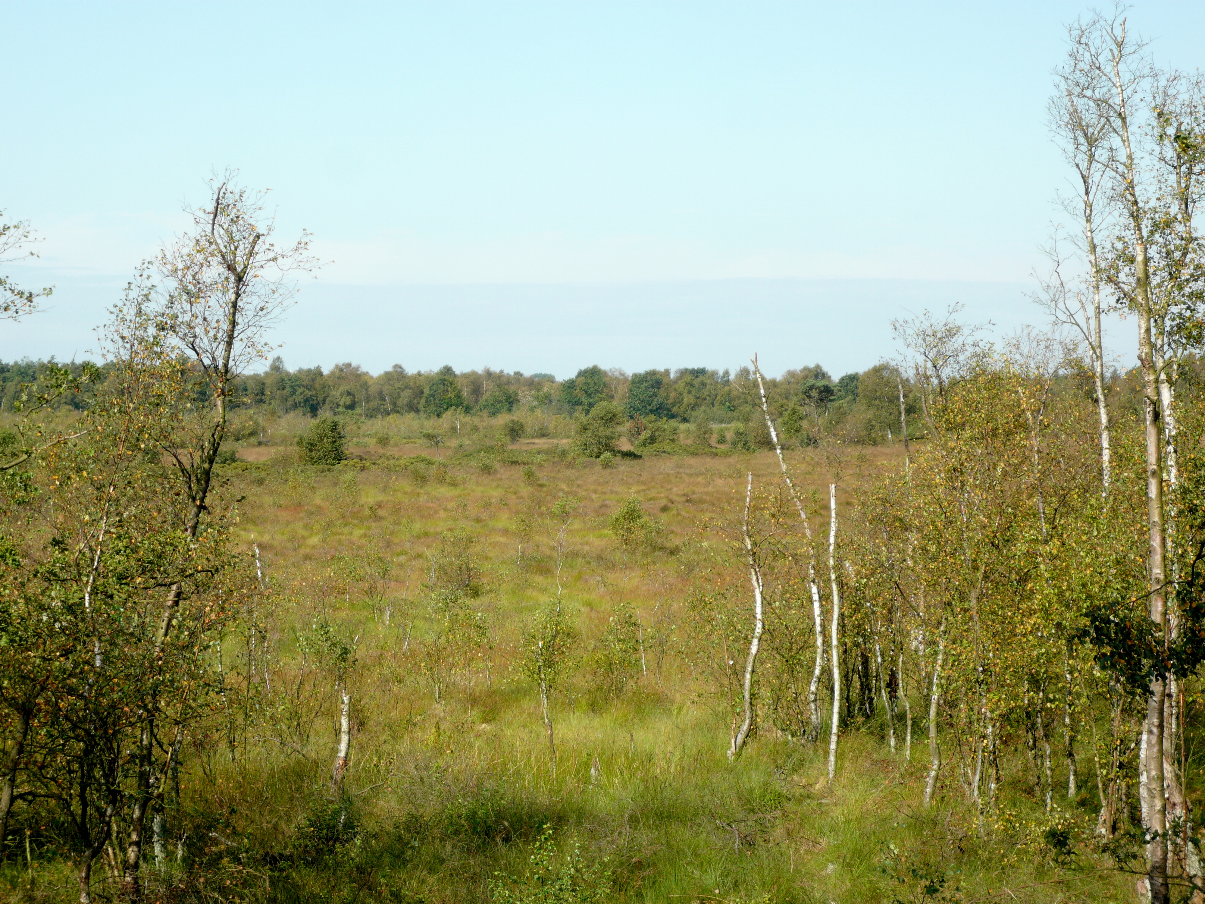 Natural reserve Ochsenweide in Ostfriesland, Germany